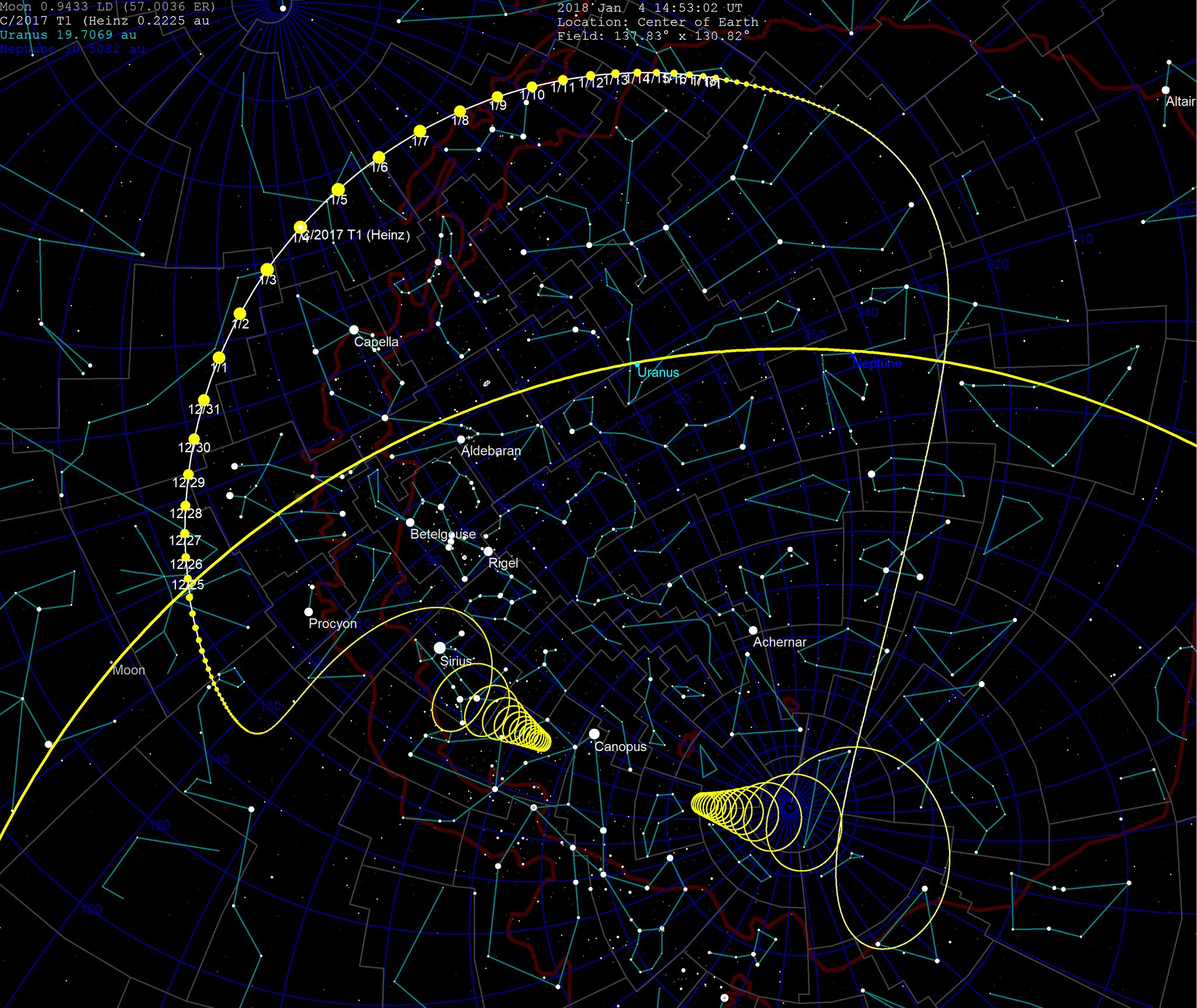 Comet C/2017 T1 path in sky seen from earth, with daily motion